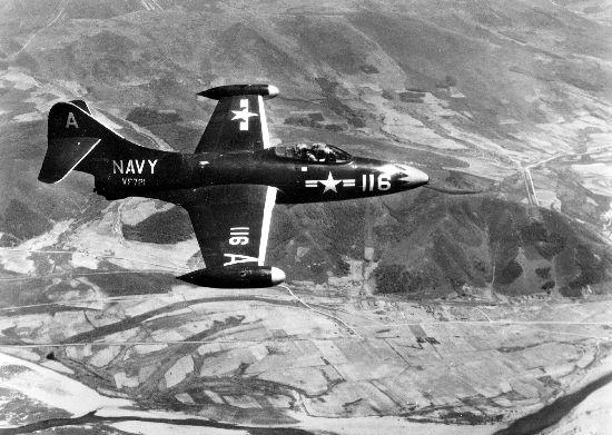 A U.S. Navy Reserve Grumman F9F-2 Panther from Fighter Squadron 721 (VF-721) "Starbusters" in flight. VF-721 was assigned to Carrier Air Group 14 (CVG-14) aboard the aircraft carrier USS Boxer (CV-21) for a deployment to Korea from 2 March to 24 October 1951.